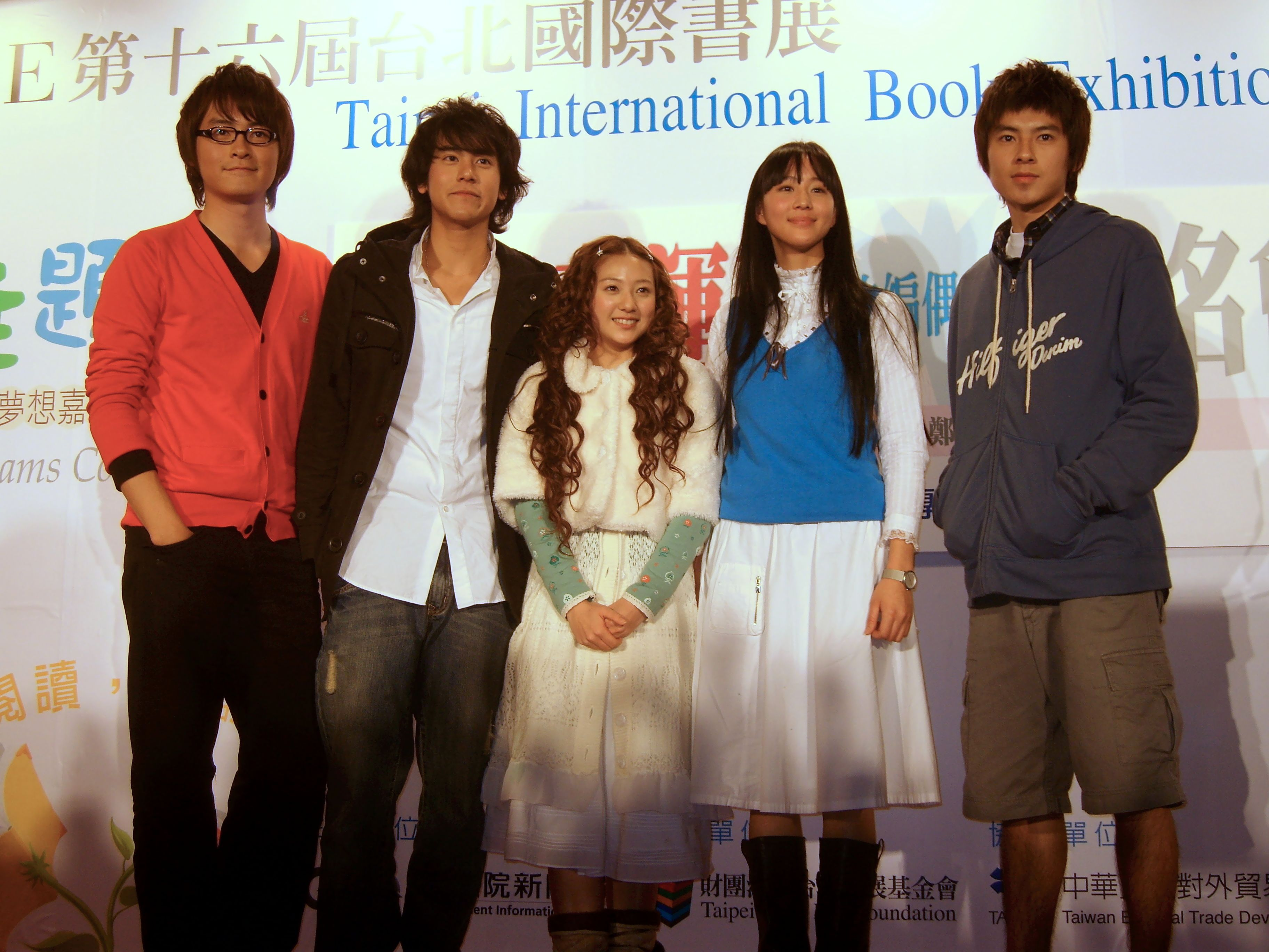 2008 Taipei International Book Exhibition - Guests from Signing Event of Taiwanese version of Japanese drama "Honey and Clover": Chiaki Ito.